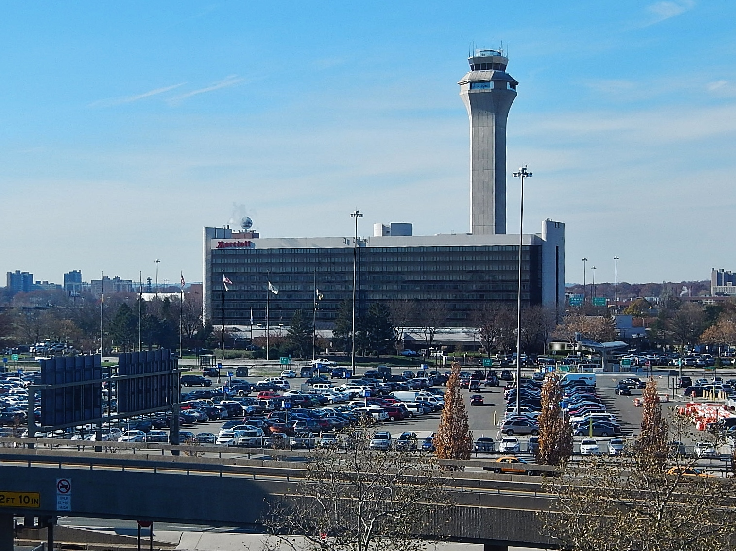 Mariott at Newark Liberty International Airport (EWR)